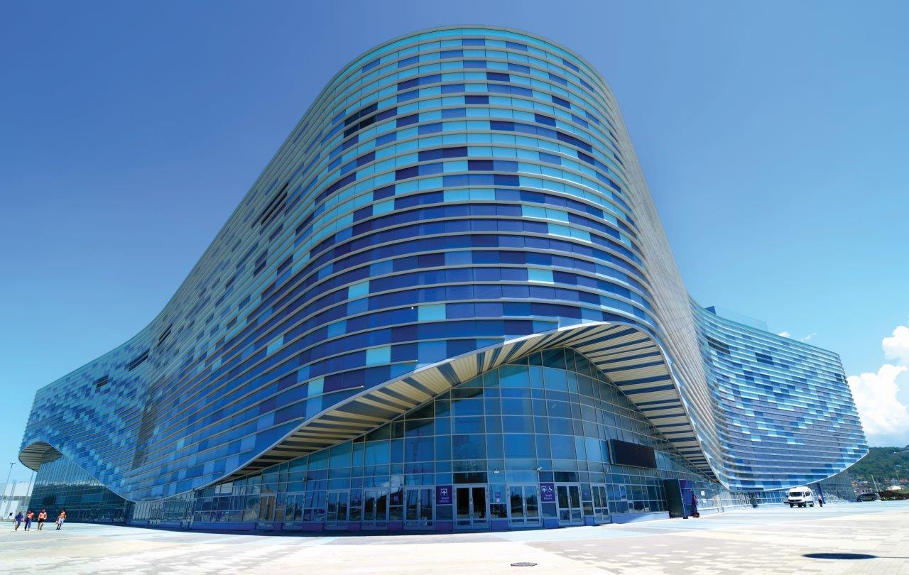 Iceberg Skating Palace. The venue will host the figure skating and short track speed skating events at the 2014 Winter Olympics.